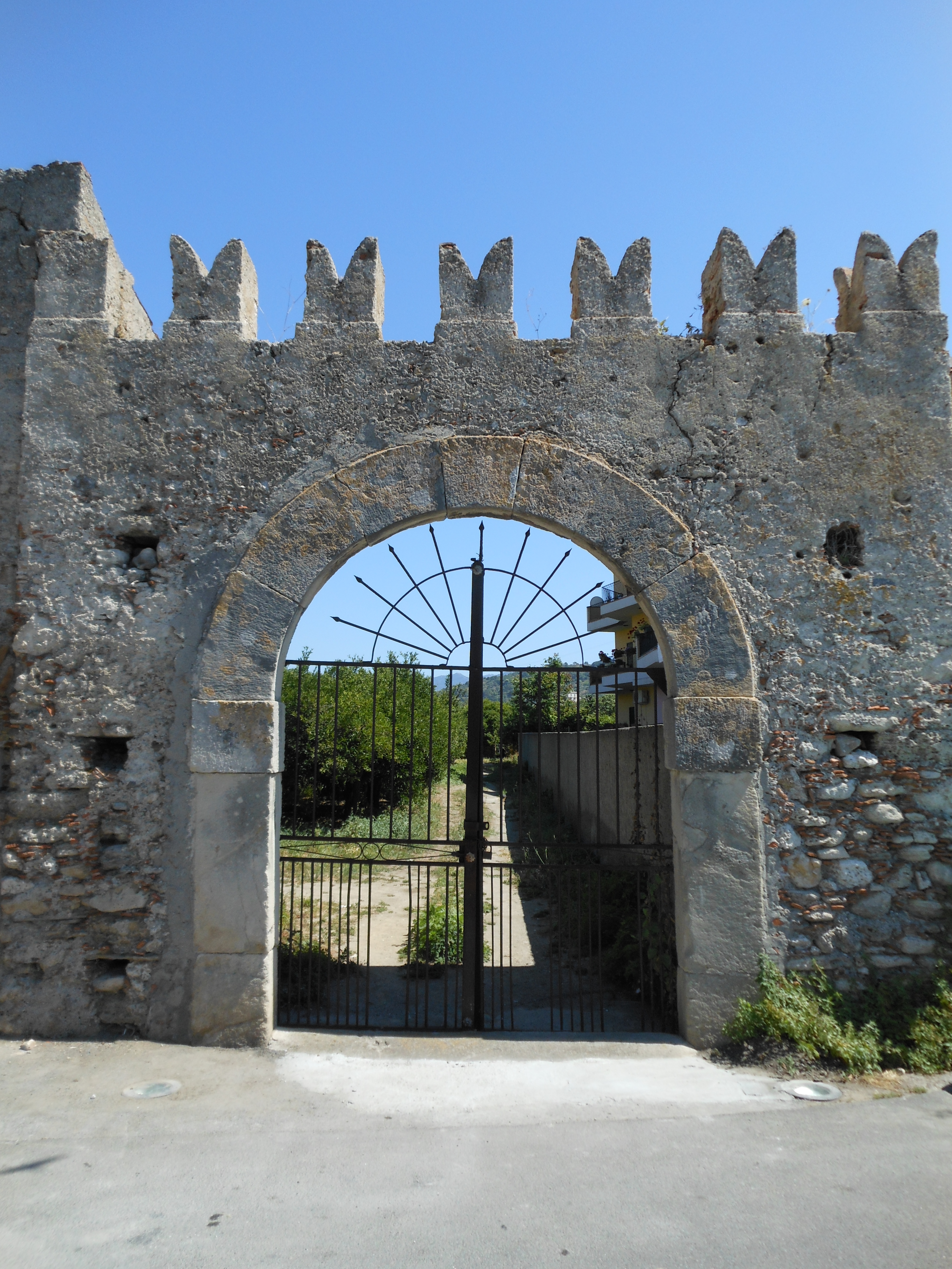 The crenellated arch of the seventeenth century, historic centre of Torregrotta, Italy.